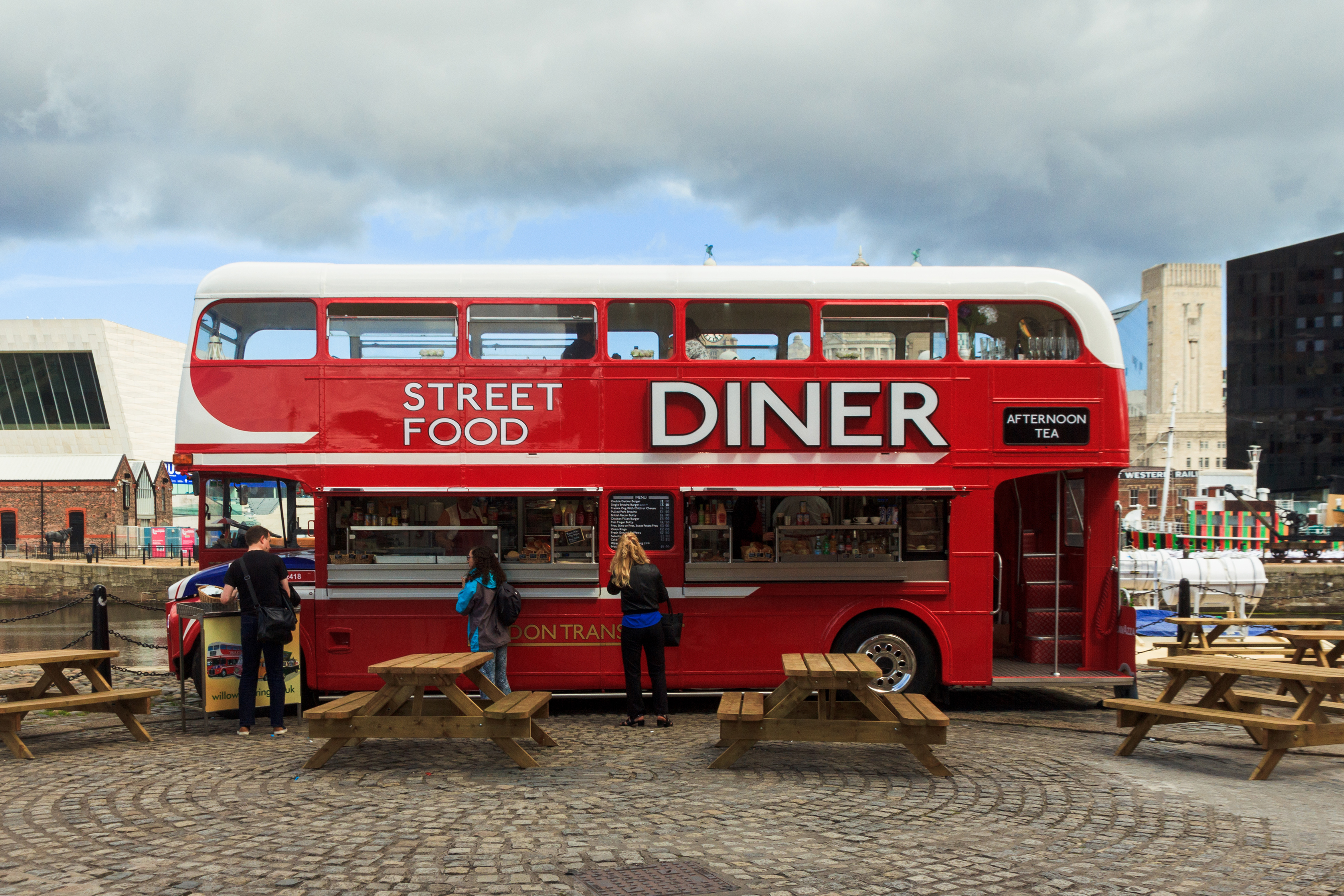 Street Food truck in Albert Dock, April, 2017